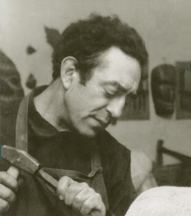 Jacob Lipkin carving stone in his St. Mark’s Place studio, circa 1959.